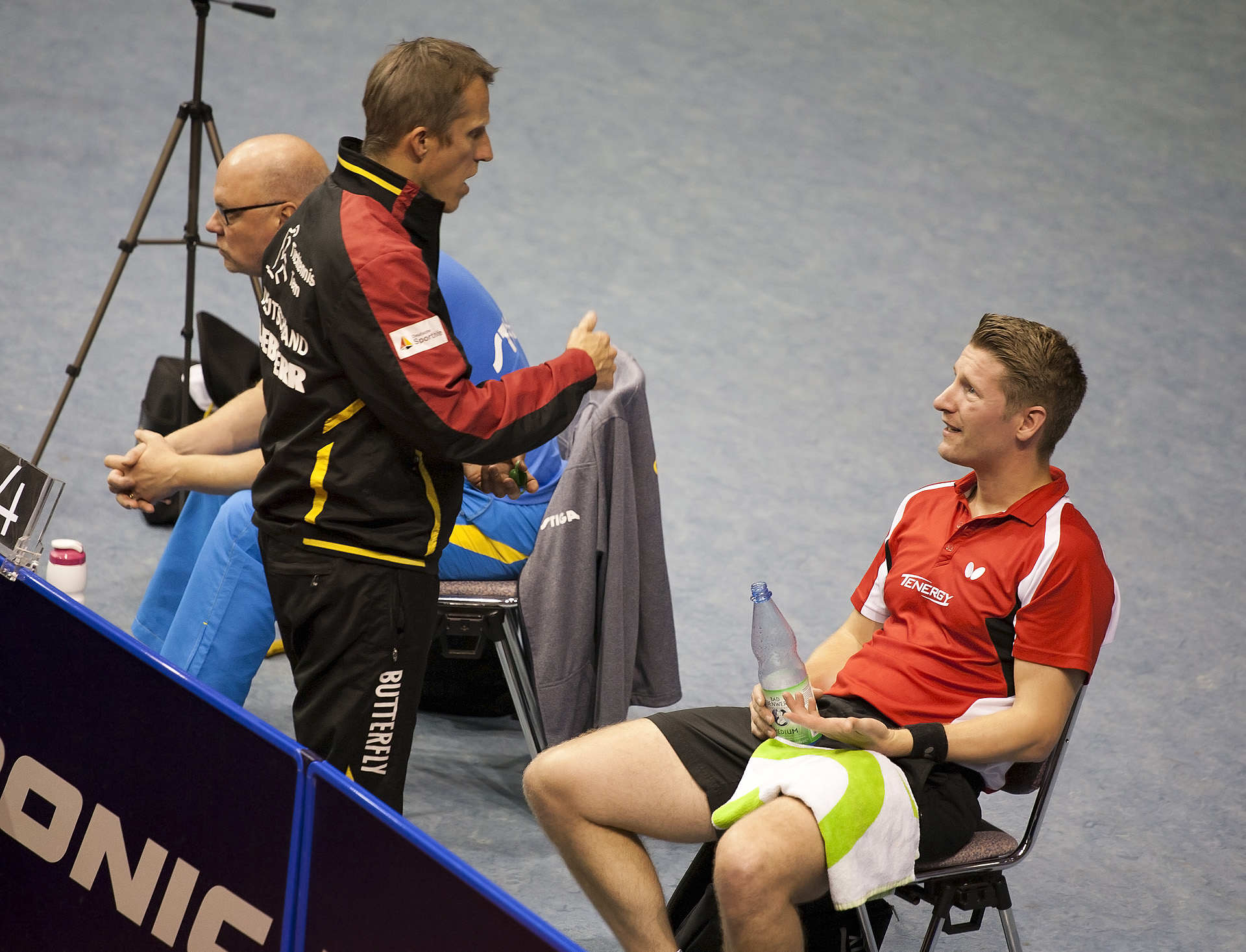 ITTF World Tour 2017 German Open, Magdeburg, Germany, 7 Nov 2017 - 12 Nov 2017, Jörg Roßkopf, Filus Ruwen